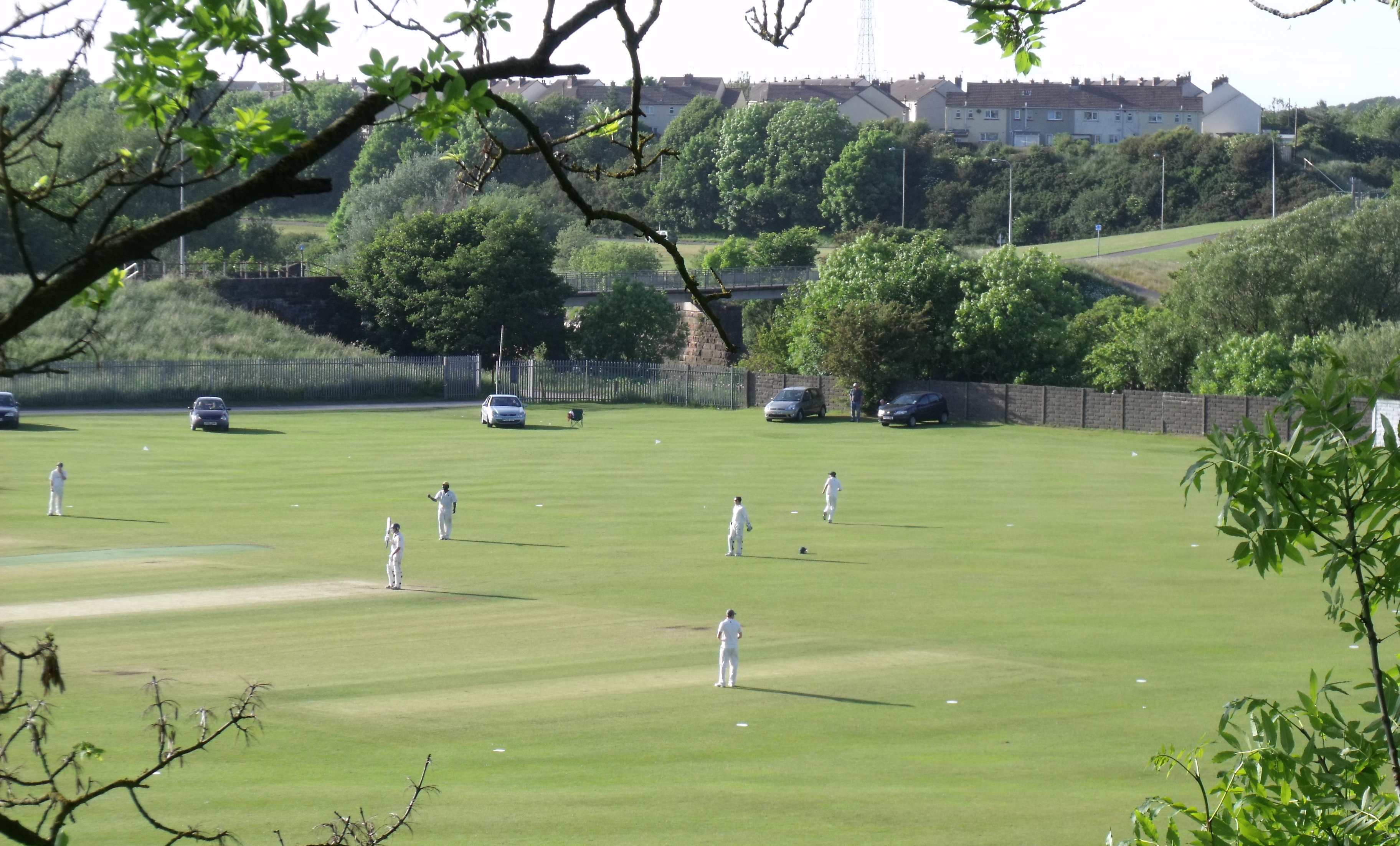 Photographer: Andy V Byers